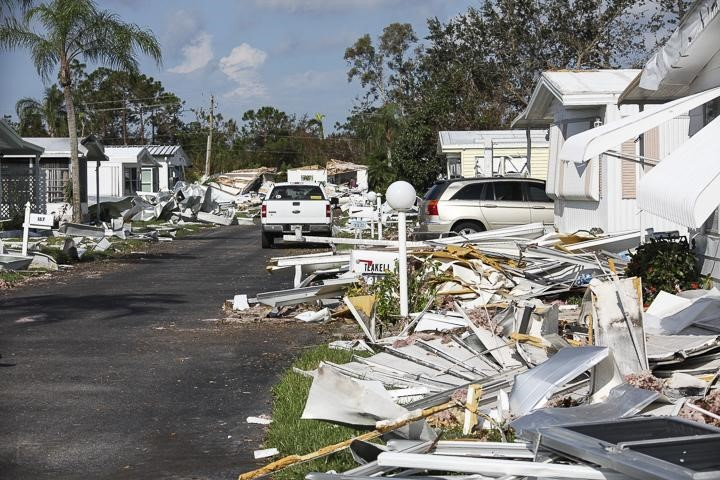 Forty Myers, FL., September 14, 2017 - A Florida neighborhood is littered with debris following Hurricane Irma. Robert Kaufmann/FEMA